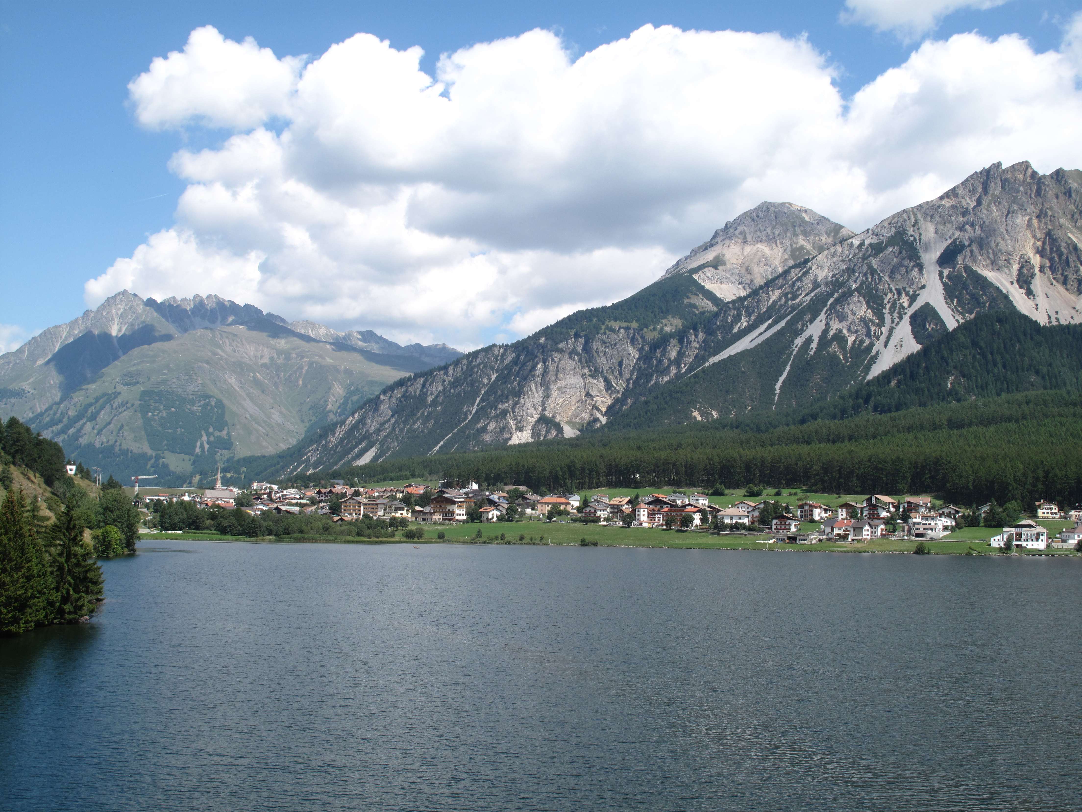 San Valentino alla Muta, view to the village